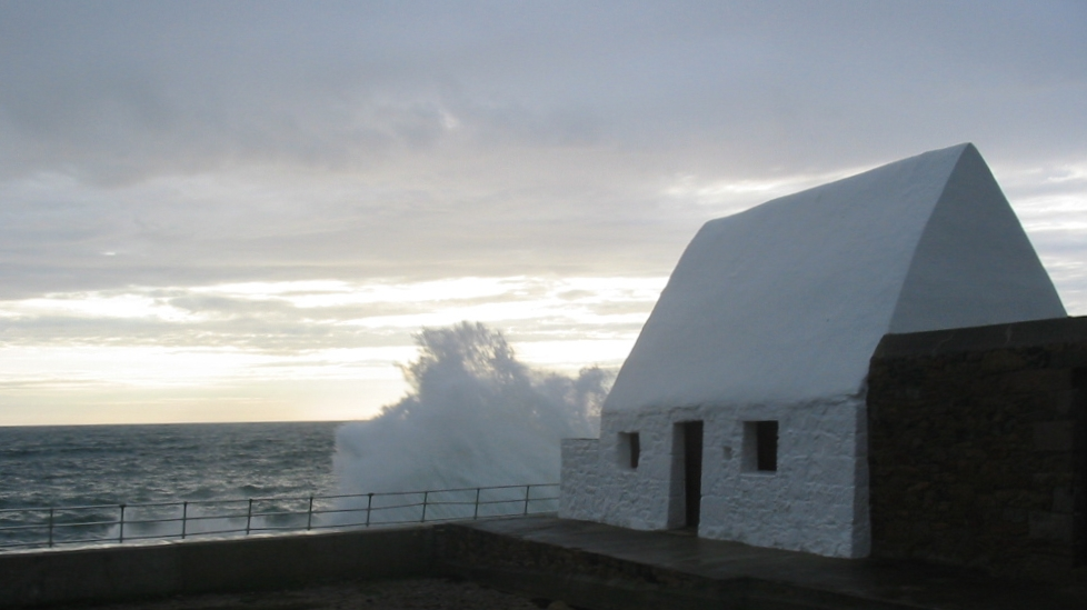 Jersey Nrf: Jèrri